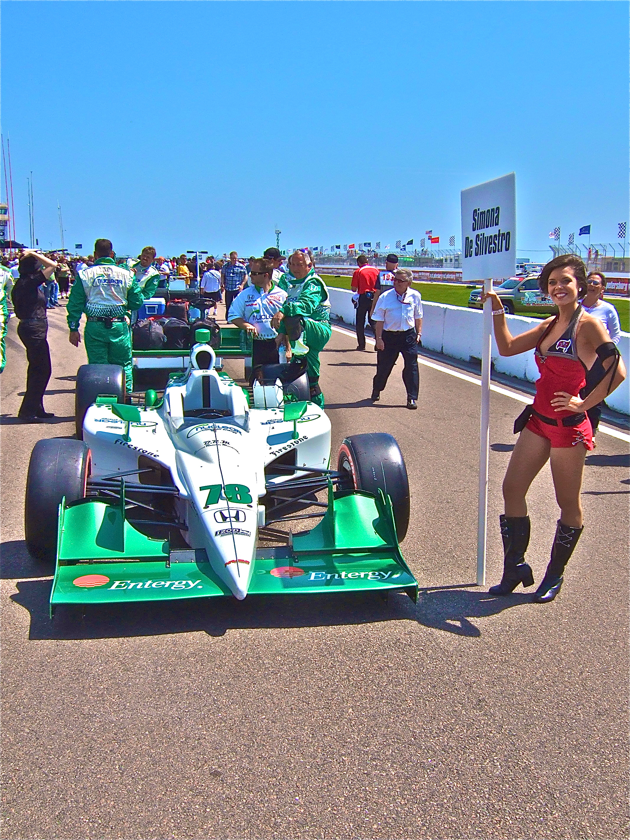 The 2011 Honda IZOD INDYCAR Series #78 of Simona de Silvestro before the 2011 season opener at St. Petersburg, FL.